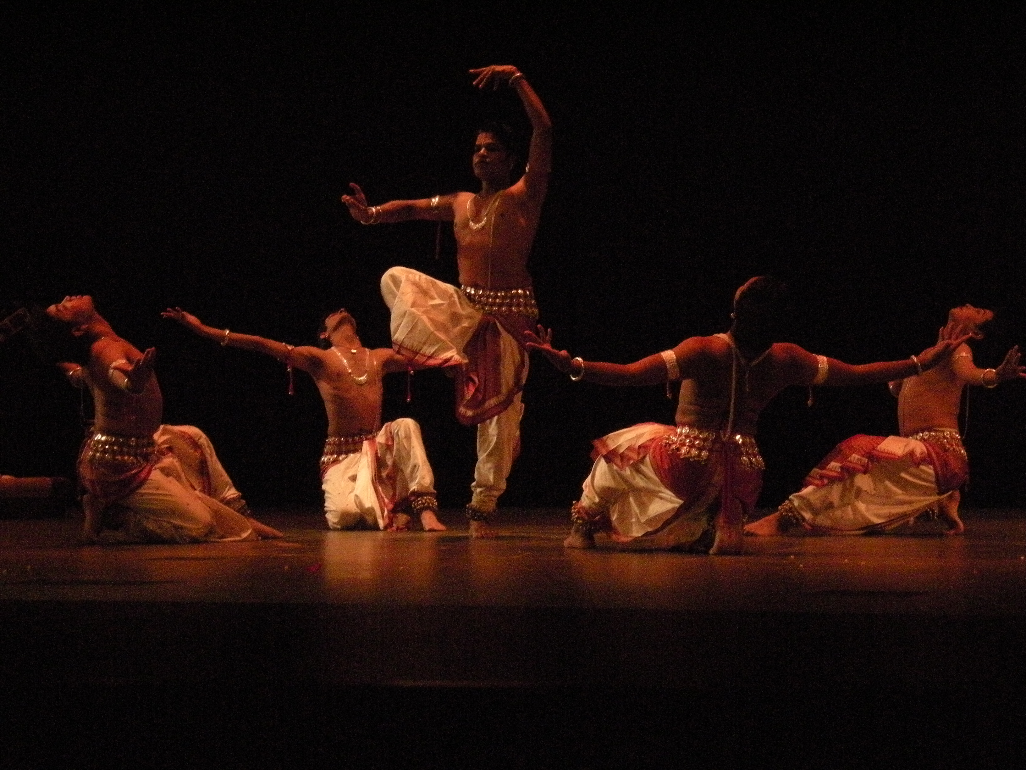 Performance by Odissi dance troupe Rudrakshya (with live musical accompaniment) at Interlake High School, Bellevue, Washington; performance in the Ragamala series (Greater Seattle). Information about the individual performers can be found on the Ragamala site.